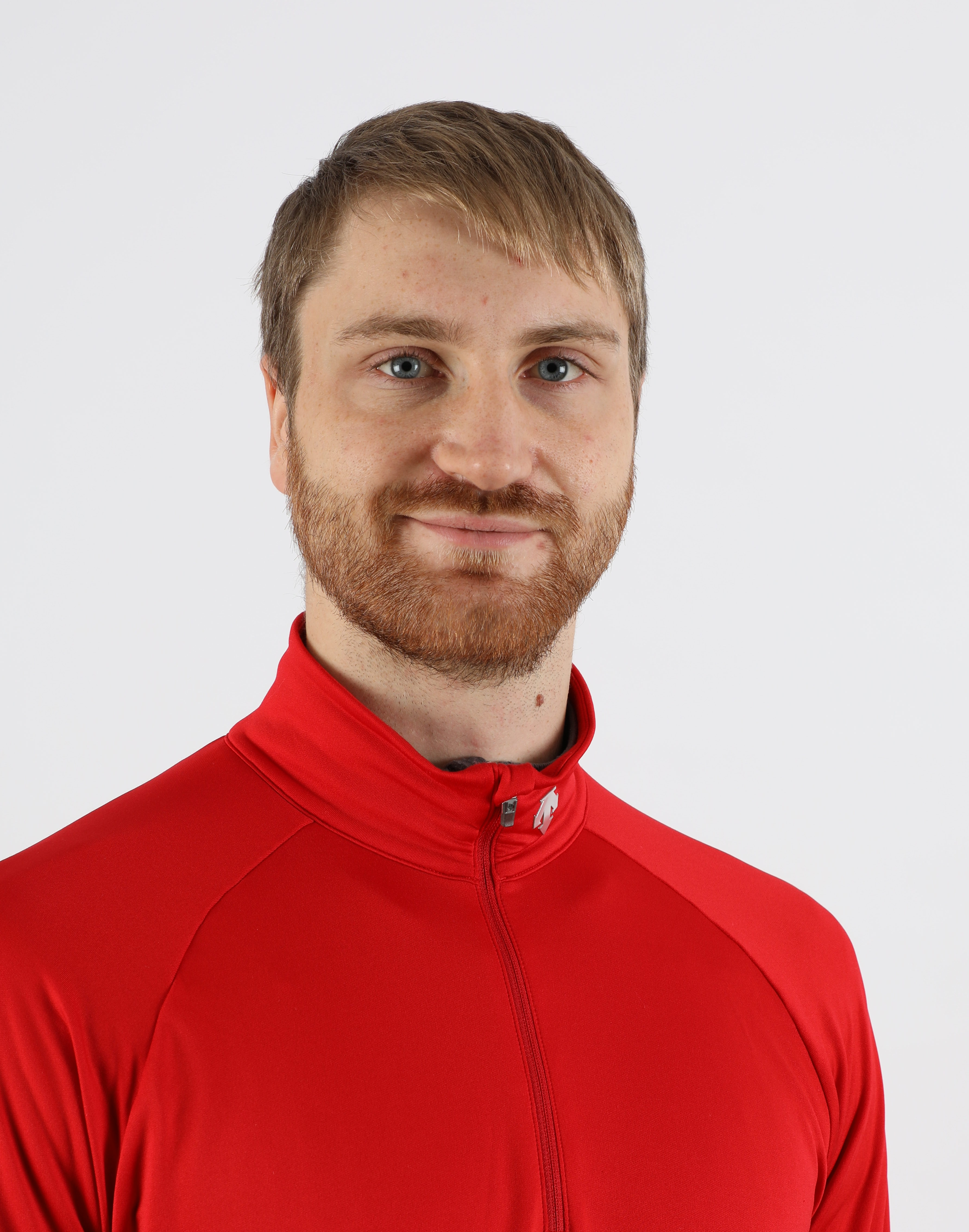 Athletes' photo project at the 2018/19 Innsbruck-Igls Luge World Cup: Chris René Eißler (Germany)